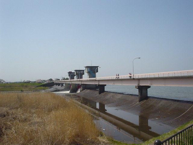 Hukuoka-zeki at Yawara,Ibaraki,Japan